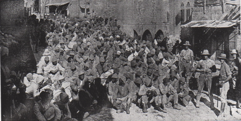 Prisoners captured by the Light Horse at Es Salt